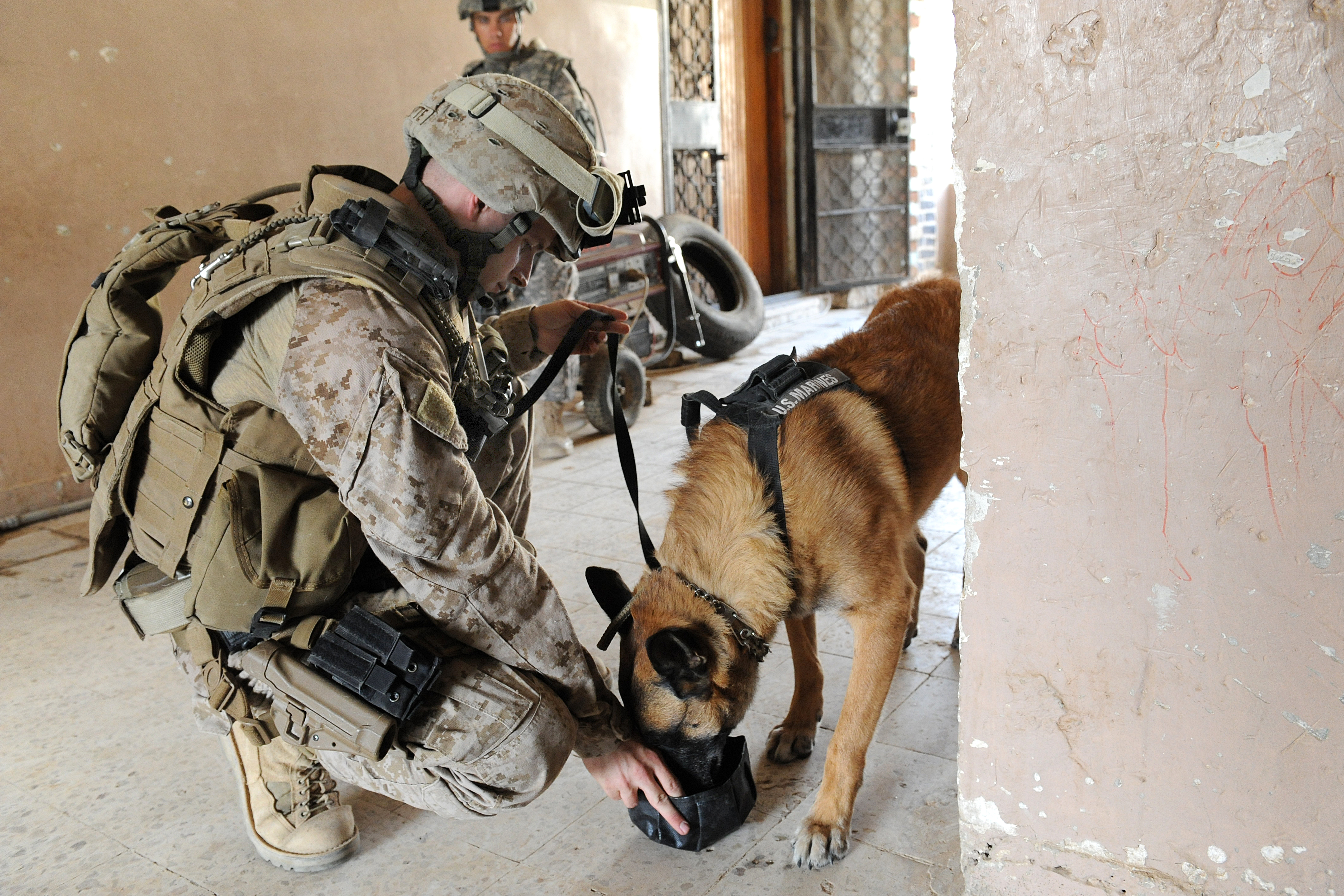 U.S. Marine Corps Lance Cpl. Brian Vandeputte gives his working dog Oscar a well deserved water break after searching several buildings at the Haifa Street Apartments in Baghdad, June 25, 2009. Vandeputte is a military dog handler assigned to 18th Infantry Division’s Company D, 1st Battalion.